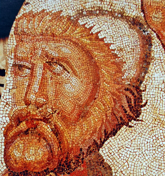 Ancient mosaic of the Roman villa of La Olmeda in Pedrosa de la Vega (Palencia, Castile and León, Spain), depicting Odysseus (Ulises), late 4th-5th centuries AD. This is a close-up detail of a larger scene from the Iliad depicting Odysseus discovering Achilles as he is cross-dressed and fawned over by a group of adoring princesses at Skyros.